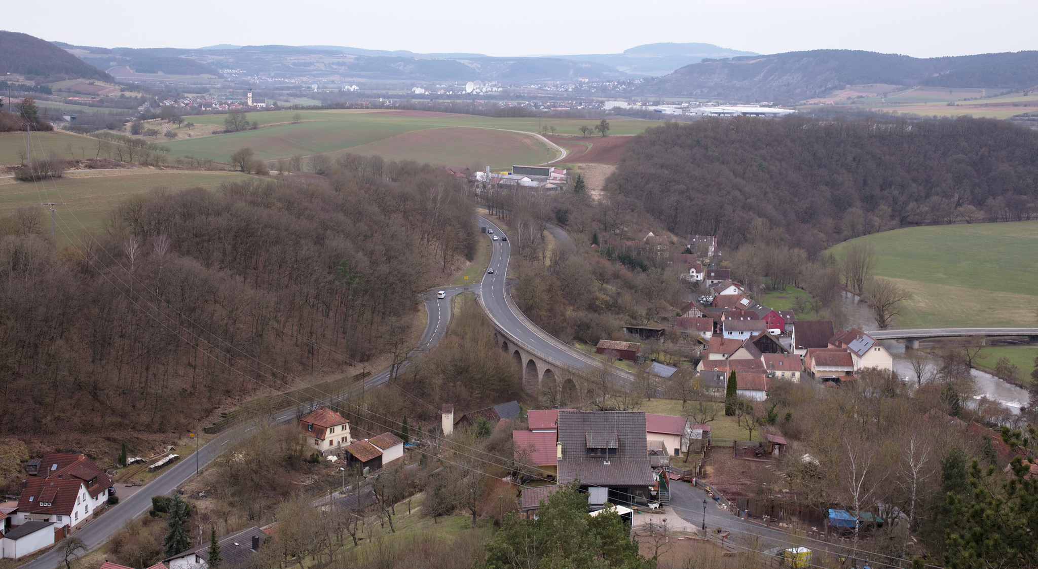 View of Trimberg, Elfershausen, Lower Frankonia, Bavaria, Germany.